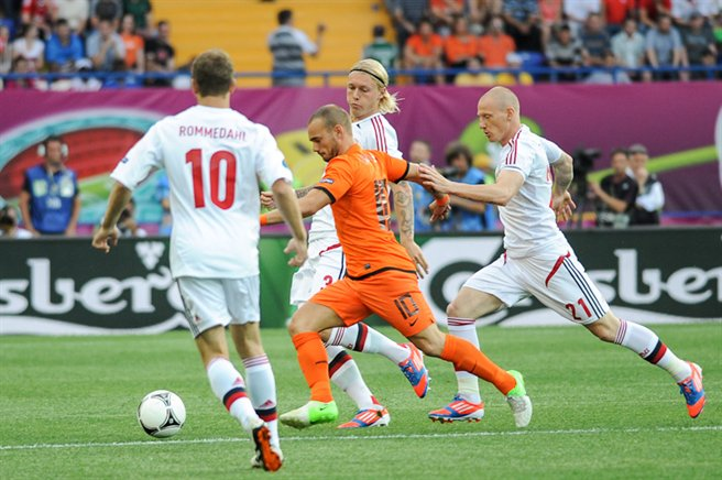 UEFA Euro 2012 match between Netherlands and Denmark that took place in Kharkiv. Final result was 0:1 (Krohn-Delhi)Dennis Rommedahl (10), Simon Kjær (3) and Niki Zimling (21), Denmark, surrounding Wesley Sneijder (10), Netherlands